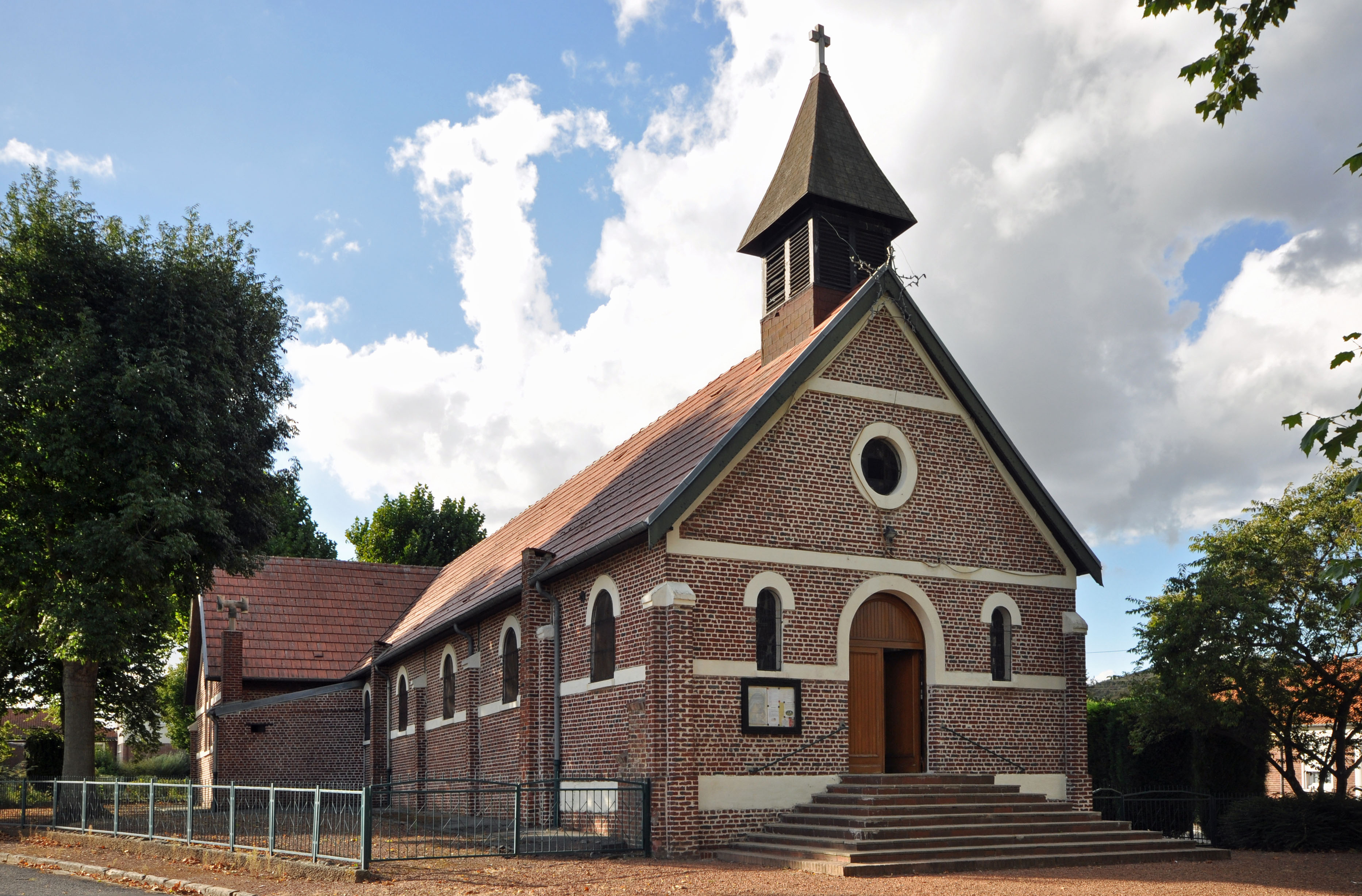 Marles-les-Mines, église Saint Stanislas